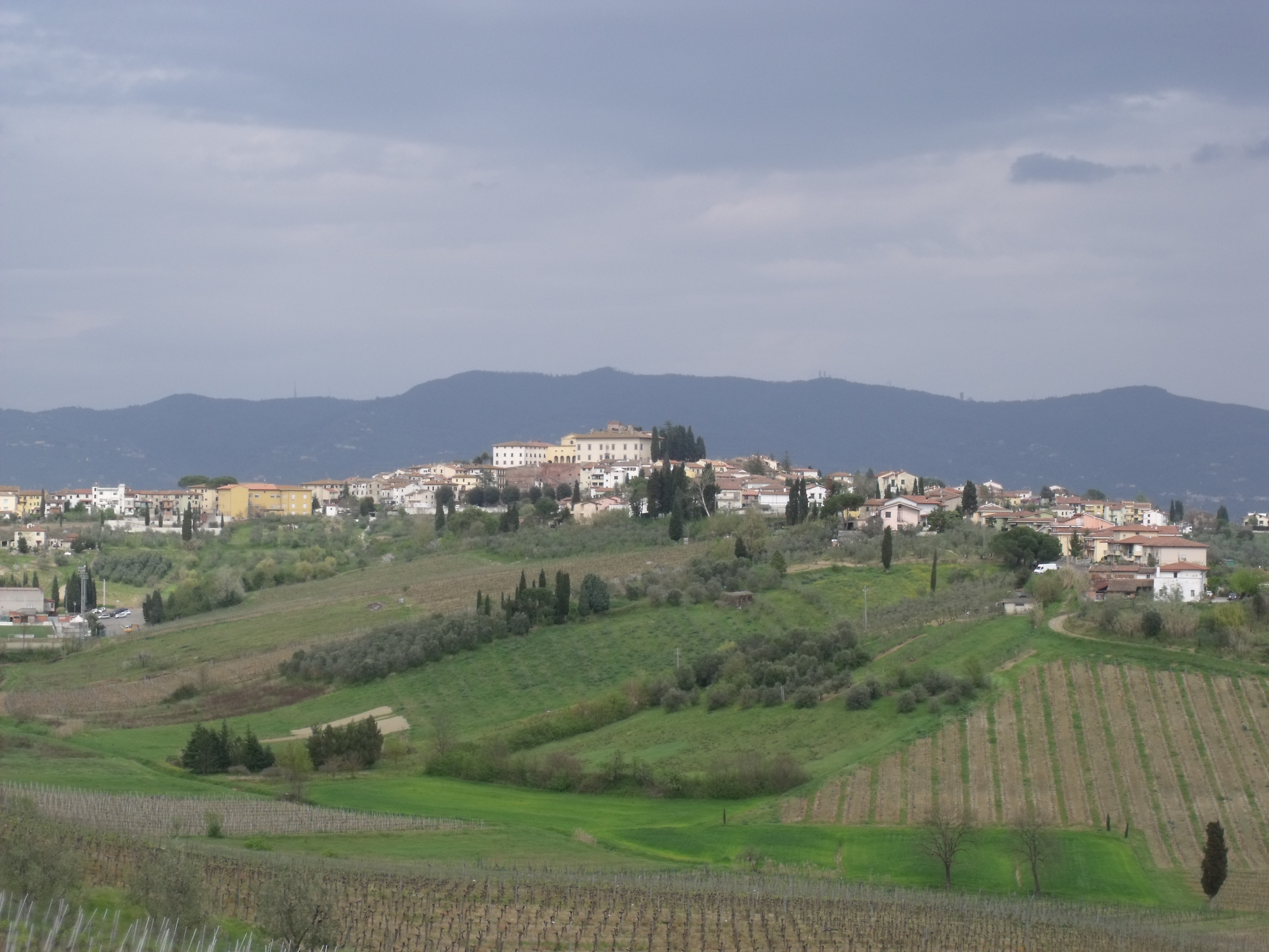 Panorama of Cerreto Guidi, Province of Florence, Tuscany, Italy